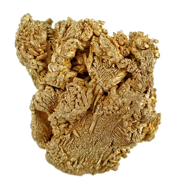 Gold Locality: Ibex Mine (Little Johnnie Mine), Breece Hill, Leadville, Leadville District, Lake County, Colorado, USA (Locality at ) Size: miniature, 3.3 x 3.2 x 1.7 cm Gold This old-time gold is completely crystallized and from the latter half of the 19th century when gold and silver mining was at its apex in this historically important district. It has a matte luster and exquisite crystallization characteristic of the locality, and has not been burned clean to enhance the lustre - it retains its original patina. It is quite possible that this lighter color is the result of a very minor silver content in the specimen. Ex. David and Emily Stoudt Collection.